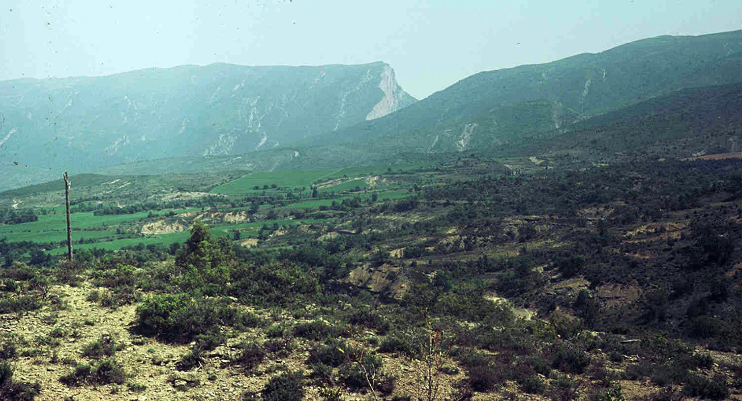 Water gap of river Noguera Pallaresa, Lleida province, Catalonia, Spain